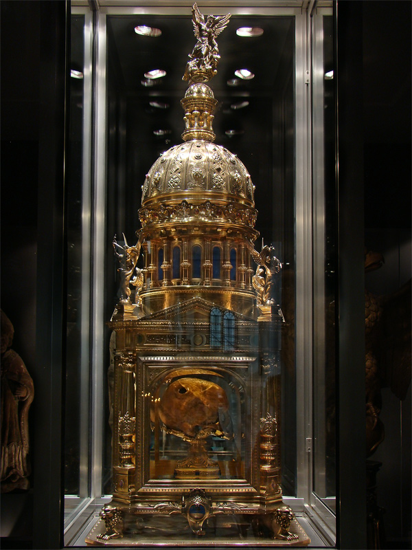 Saint-Gervais Basilica, Avranches, Manche, Normandie, France. Skull of Saint Aubert (according to tradition), founder of the sanctuary dedicated to Saint Michael on Mount Tomb.